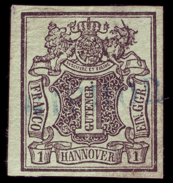 One of the Stamps of Hannover, issues 1850-1856 Graphics by Jürgens Ausgabepreis: 1 Gutengroschen (1/24 Thaler) Papier: graugrün First Day of Issue / Erstausgabetag: 30 Juli 1851 Michel-Katalog-Nr: 2a (Altdeutschland (Hannover))